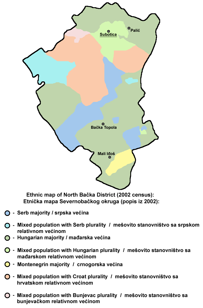 Ethnic map of North Bačka District - 2002 census (data by settlements).Serbian: Етничка мапа Севернобачког округа - попис из 2002 (подаци по насељима).